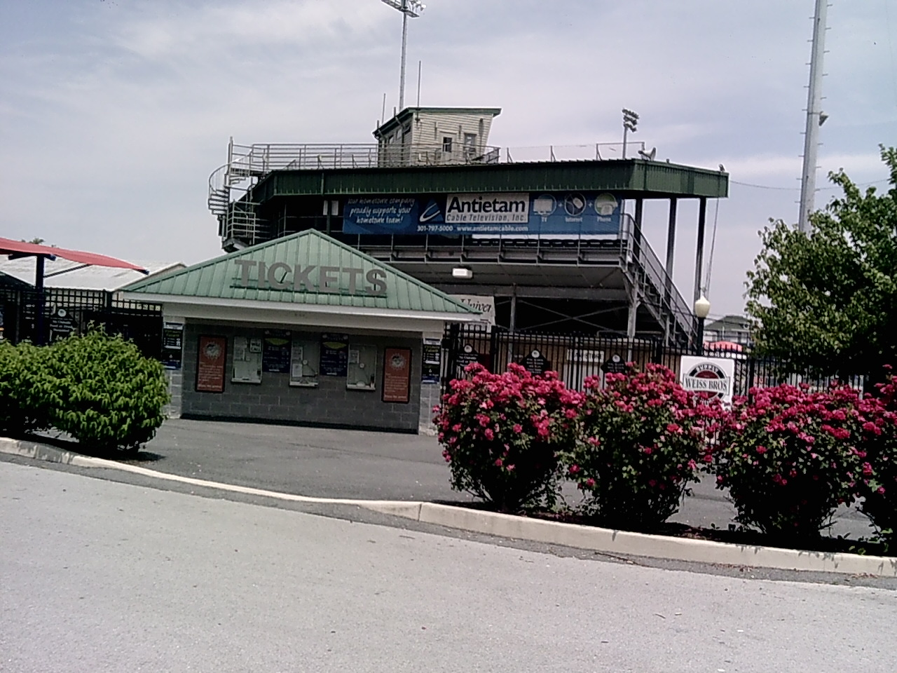 Entrance to Municipal Stadium, Hagerstown, Maryland, USA